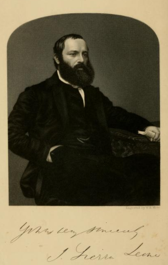 Portrait of John Bowen from book frontispiece with signature